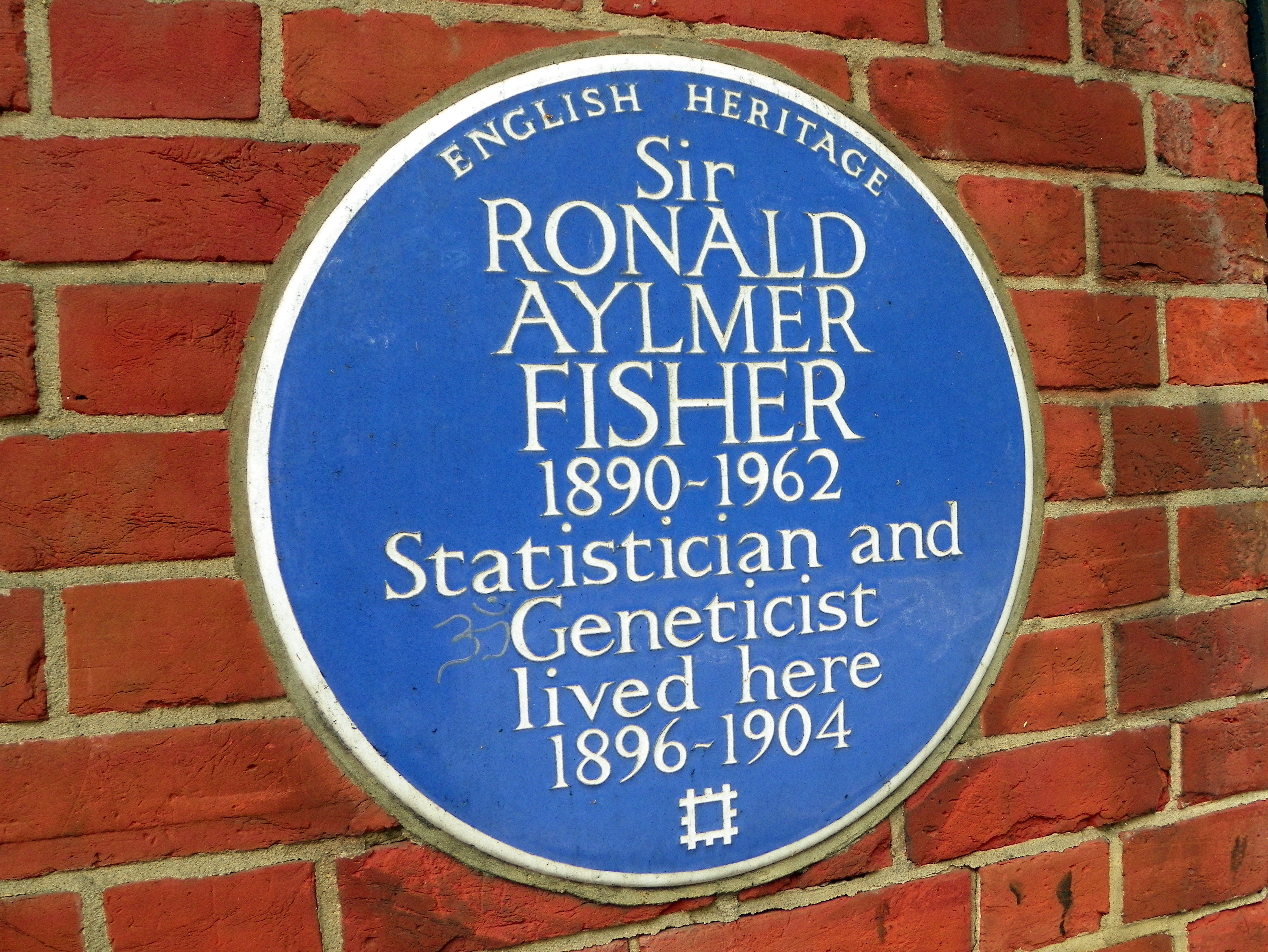 This is the English Heritage plaque to Sir Ronald Aylmer Fisher, who lived at Inverforth House.